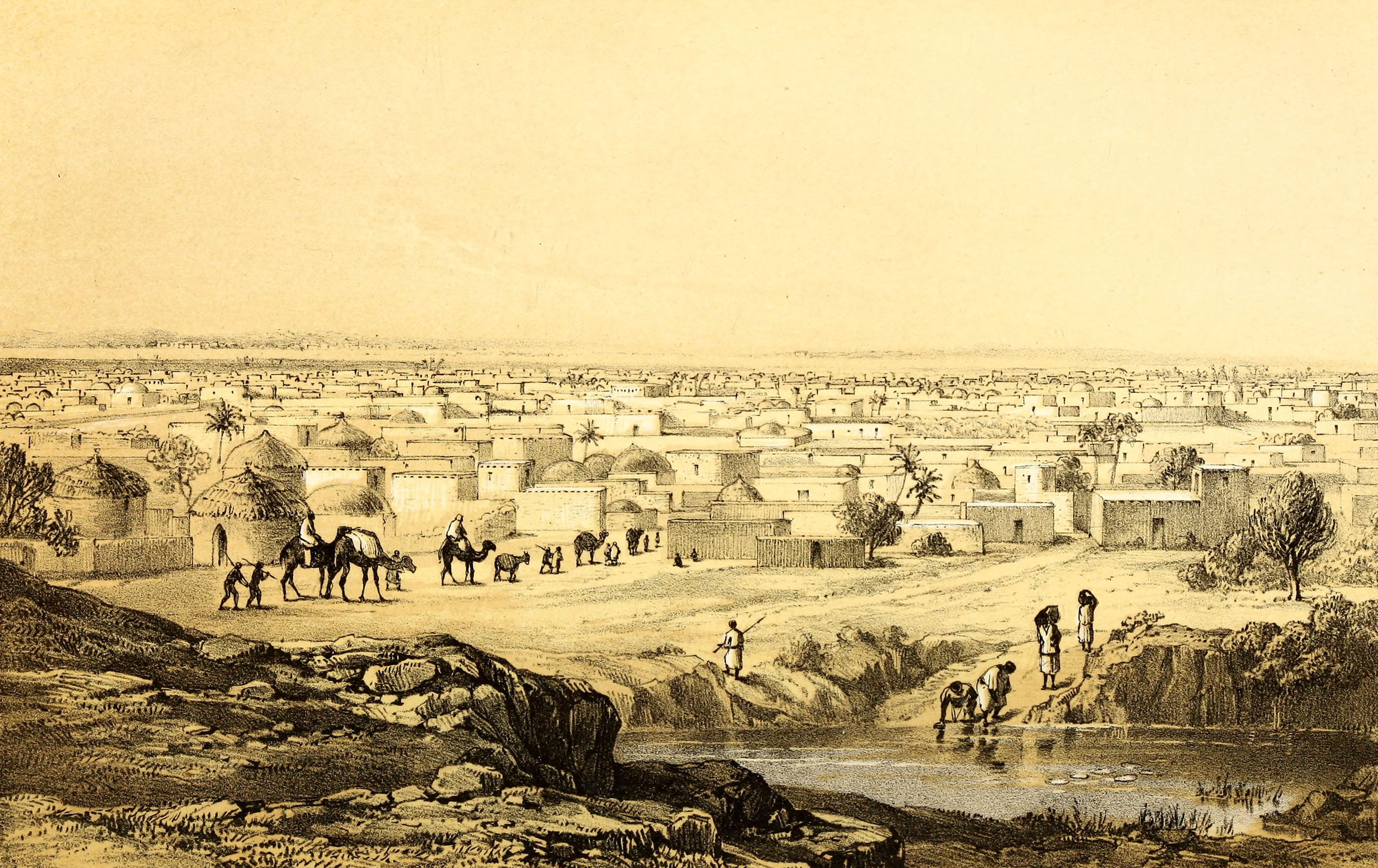 Kano from Mount Dala. Dated February 10 1850 but year should be 1851